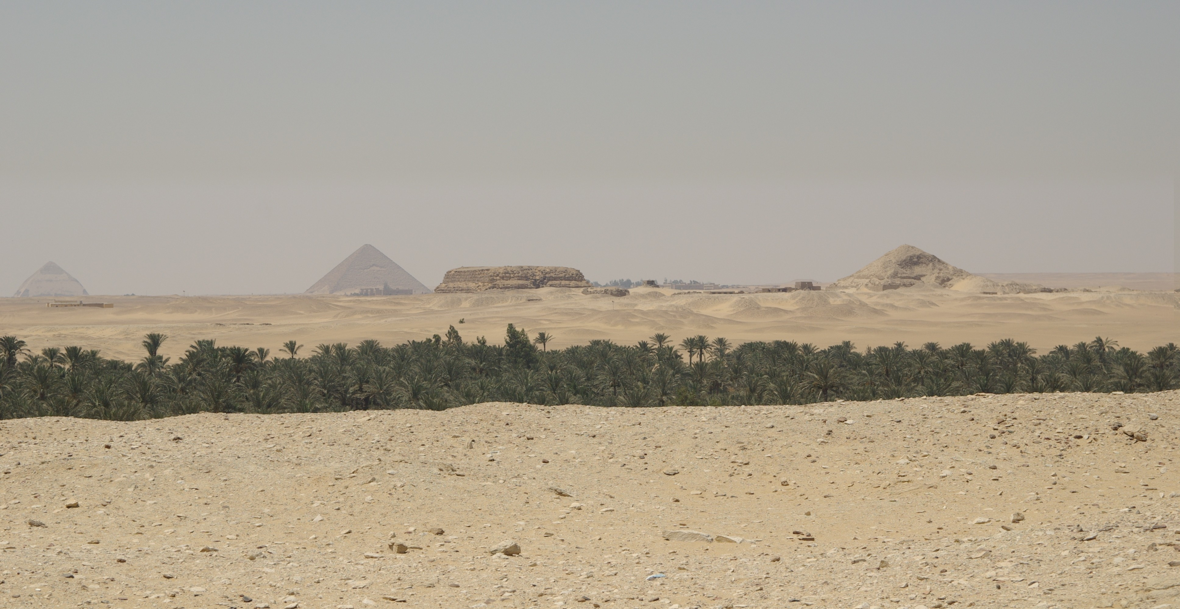 From left to right: Bent Pyramid of Snofru (Dashur), Red Pyramid of Snofru (Dashur), Mastaba of Shepseskaf (South Sakkara) and the Pyramid of Pepi II (South Sakkara) De izquierda a derecha: Pirámide Encorvada de Snofru (Dashur), Pirámide Roja de Snofru (Dashur), Mastaba de Shepseskaf (Sakkara sur) y Pirámide de Pepi II (Sakkara sur)